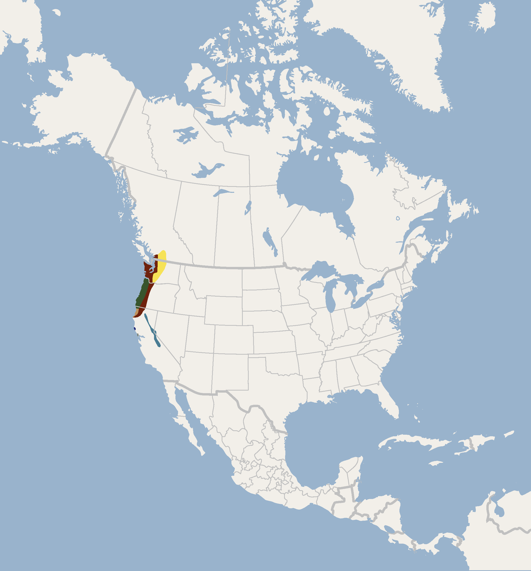 According to Hall, 1981